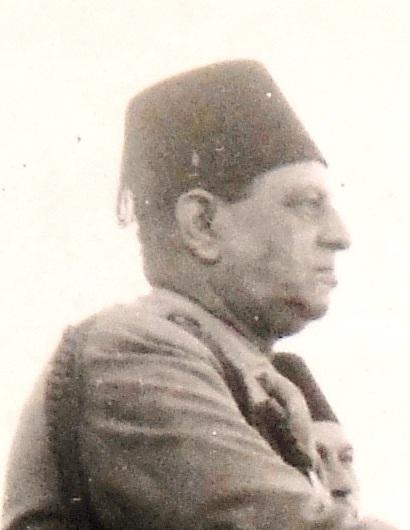 Mohamed Heidar Pasha. Zamalek SC's former president and Egyptian Football Federation.